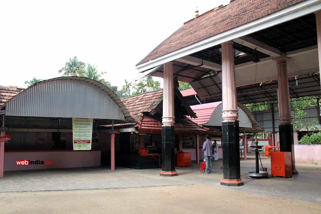 aameda